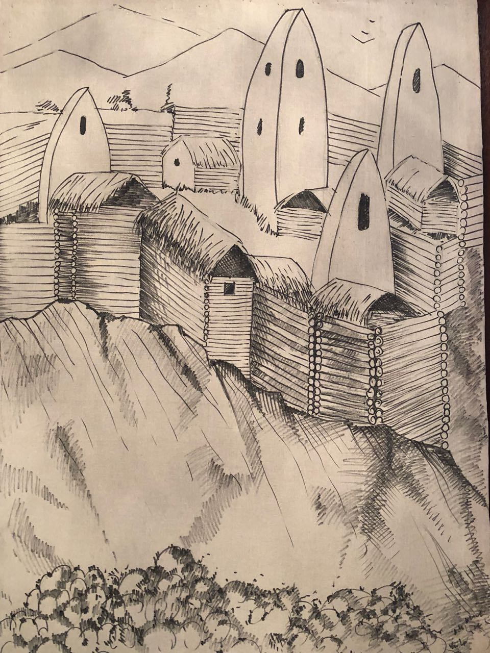 The scheme of the traditional settlement in ancient Colchis (the end of the secod millennium BC)